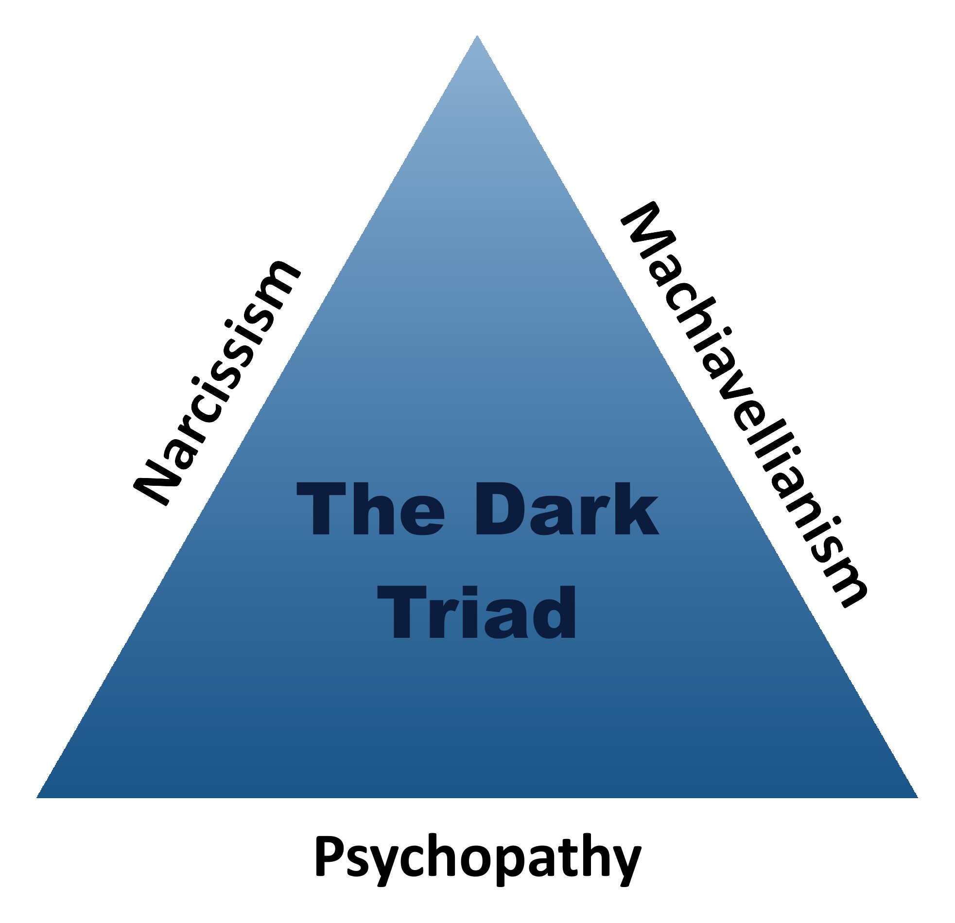 The Dark Triad, three antisocial personality traits: narcissism, Machiavellianism, and psychopathy